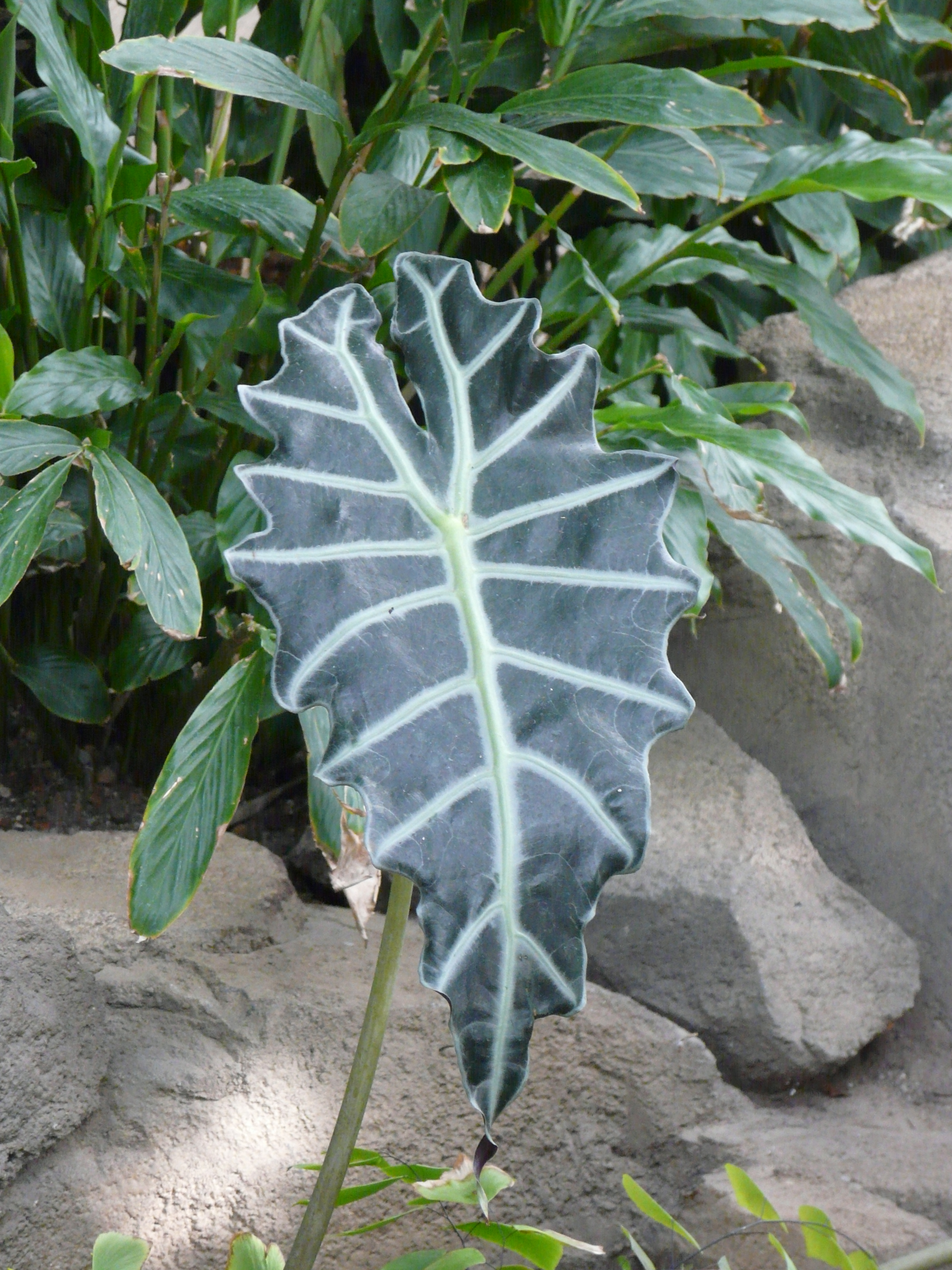 Phipps Conservatory Looks like Alocasia × amazonica